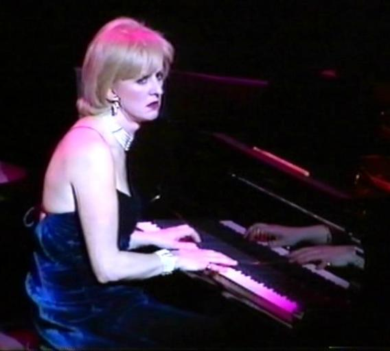 Photo of Dillie Keane in performance. Taken during Fascinating Aida's Barefaced Chic! run at the Lyric Hammersmith in 2000.